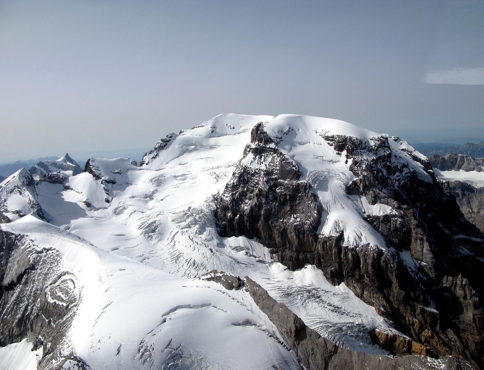 Aerial view of the Glarus Alps (border Graubünden, Glarus) with the Tödi, 3620 metres high.